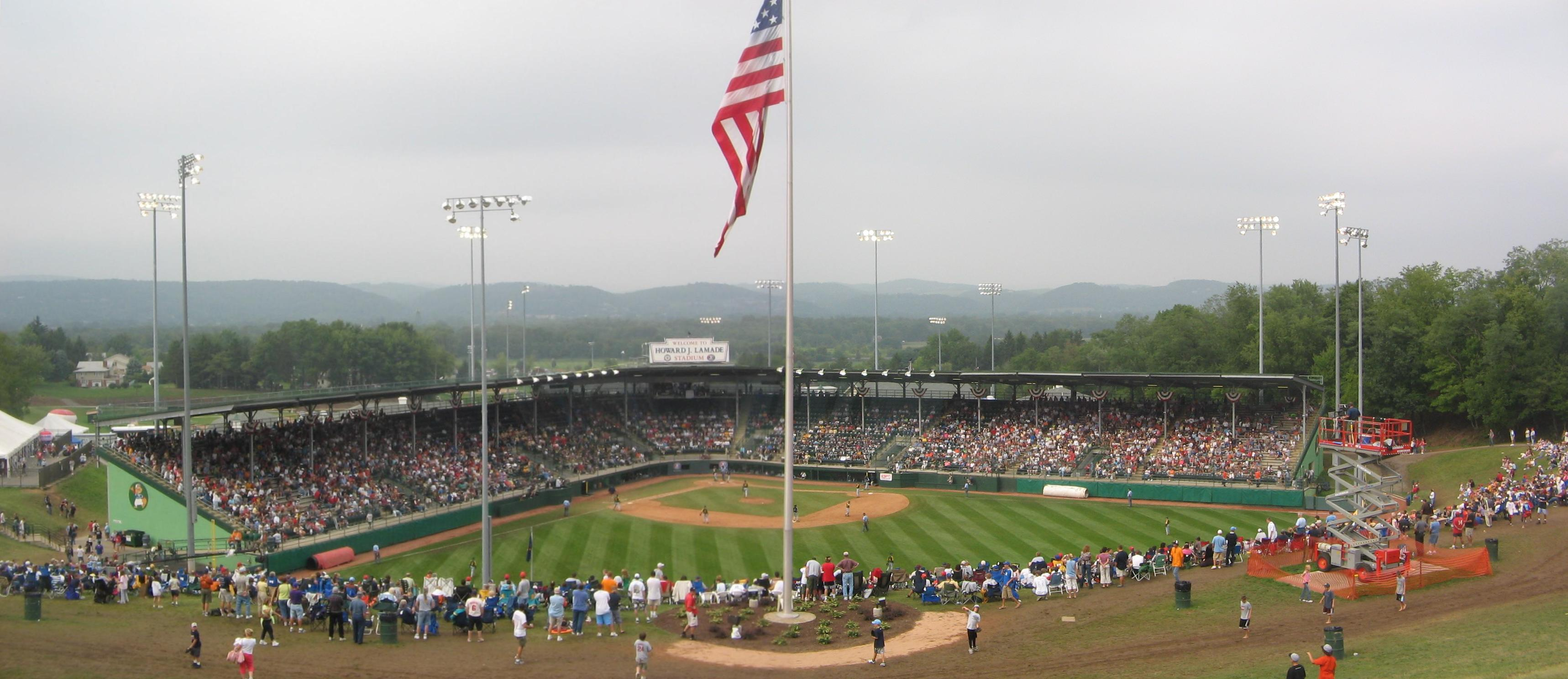 Howard J. Lamade Stadium during the 2007 Little League World Series in South Williamsport, Lycoming County, Pennsylvania, USA